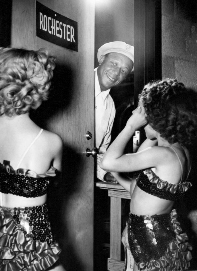 Photo of Eddie Anderson as Rochester greeting some pretty girls at his dressing room door.